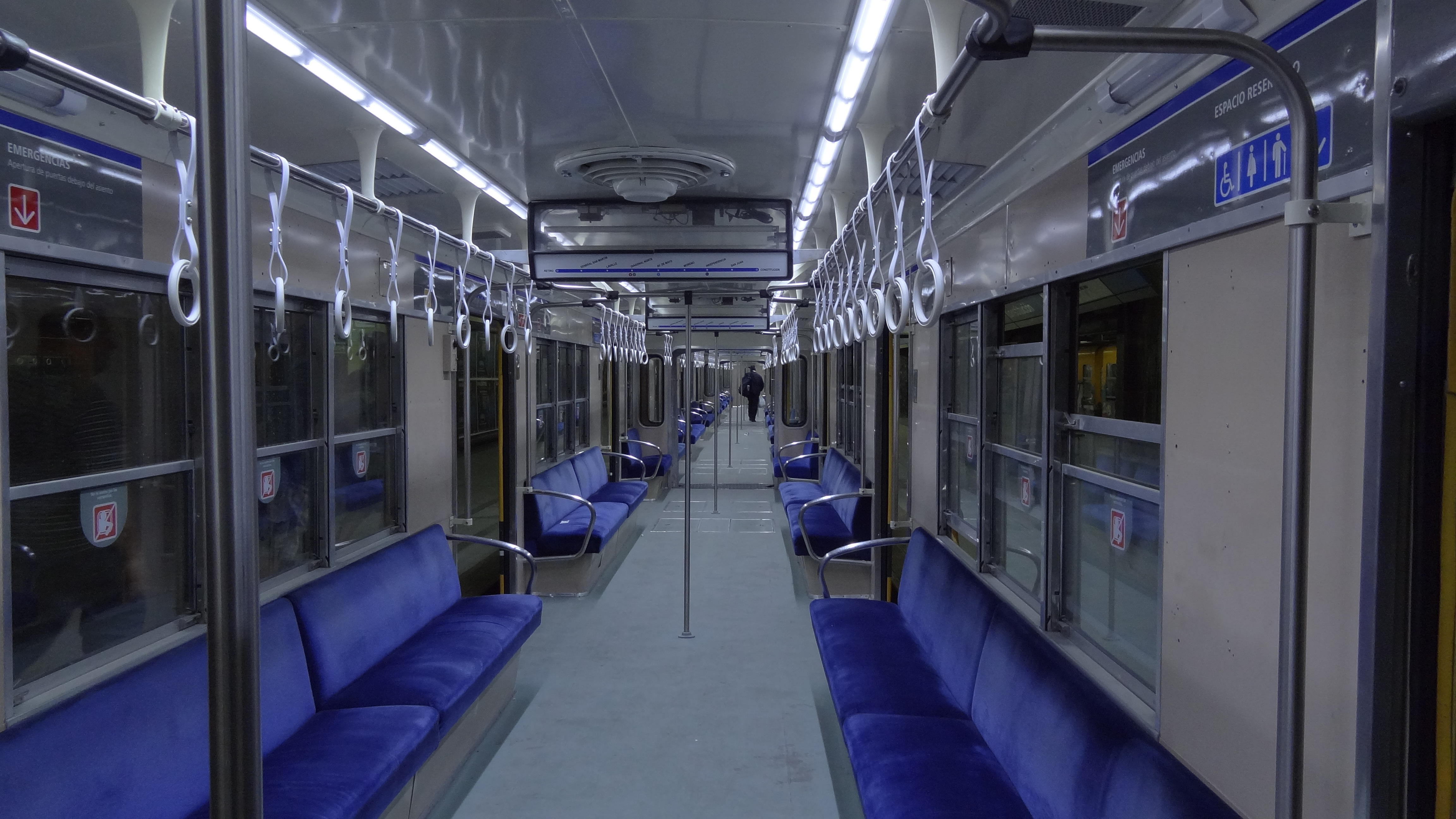 Refurbished Nagoya 300 rolling stock on Line C of the Buenos Aires Underground.